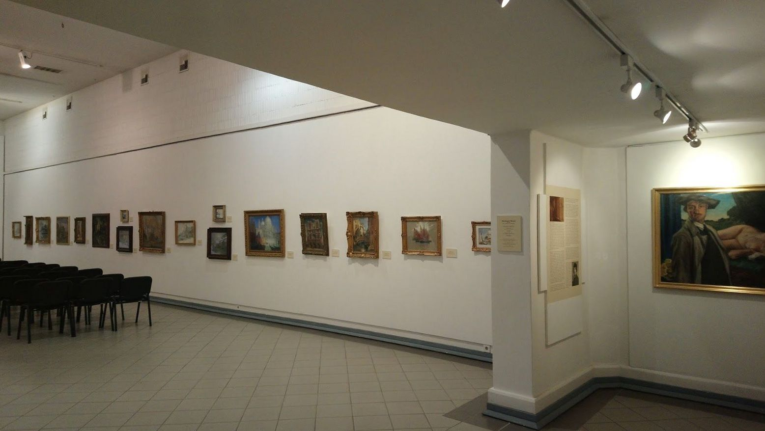 Memorial Exhibition of Dezső Meilinger, Miskolc Gallery, Hungary, 1917–1918